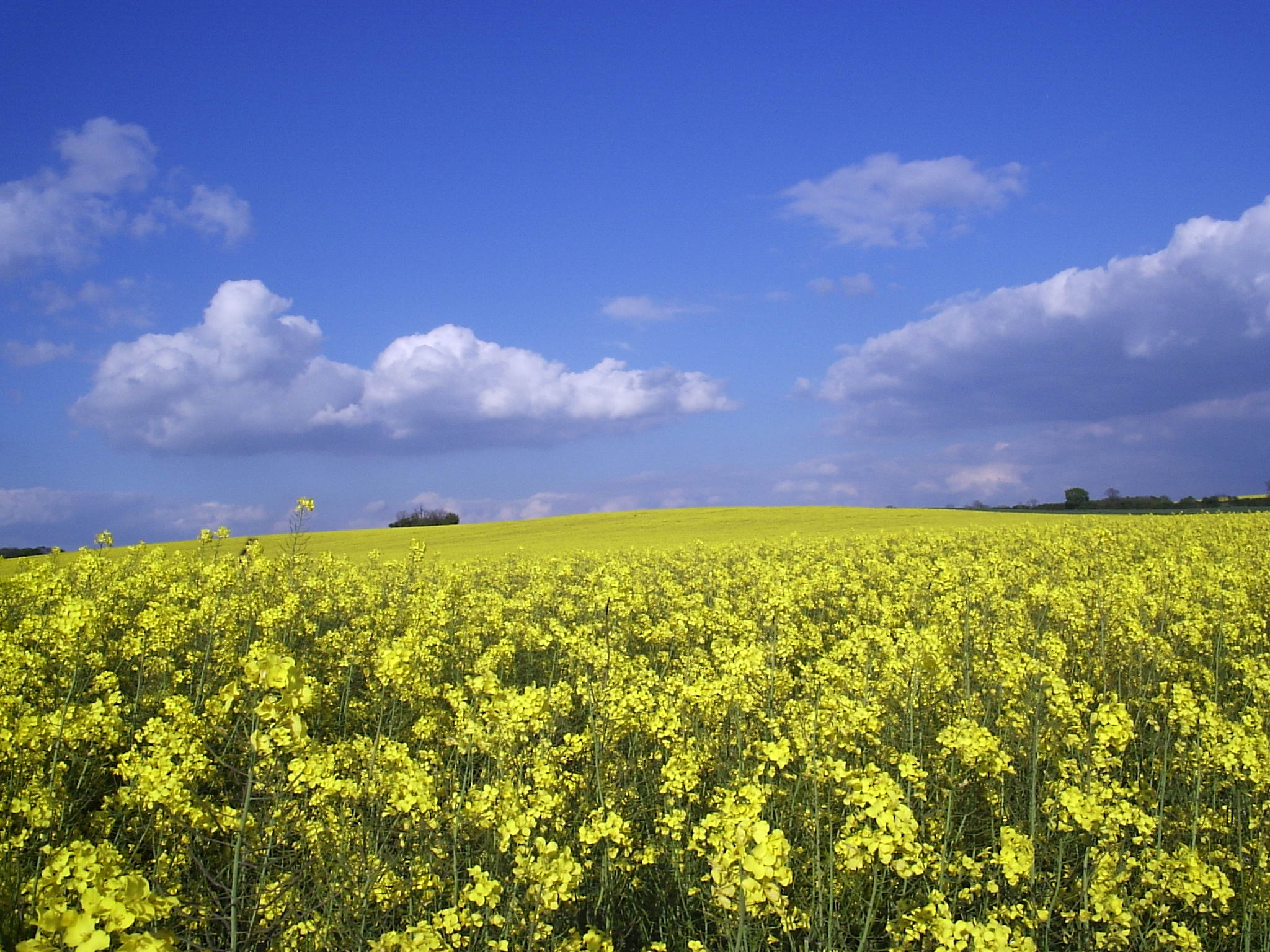 Rape Fields at Grendon Northants Picture by R Neil Marshman (c) de: Rapsfeld, Feld, Raps